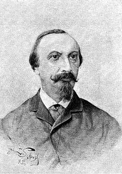 Adam Münchheimer (1830-1904)